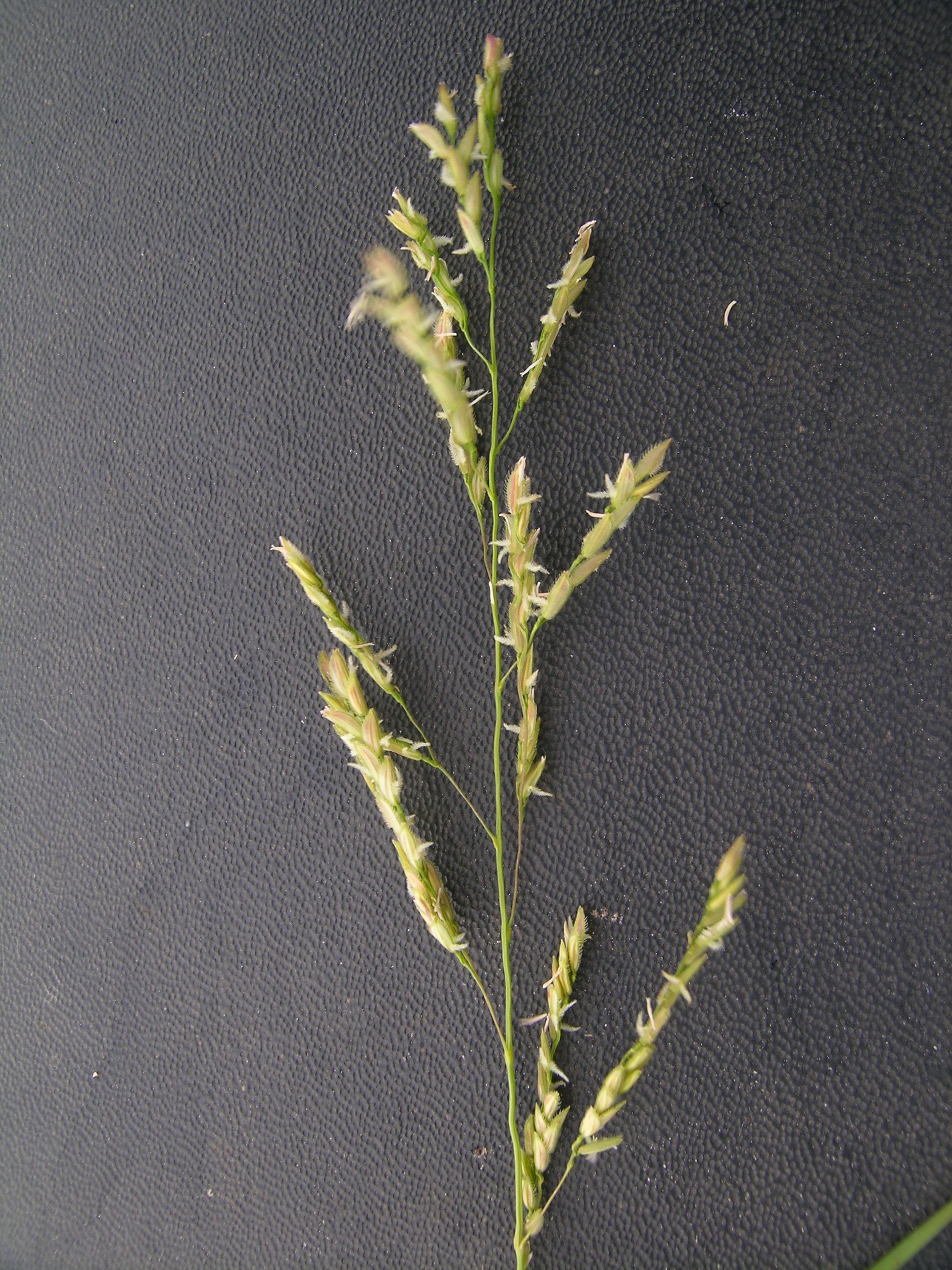 Flowerheads are contracted to open panicles 5-15 cm long. Spikelets are 1-flowered, 3-5 mm long and keeled; they lack glumes, have fringes of hairs along their margins and are held close to the branches.